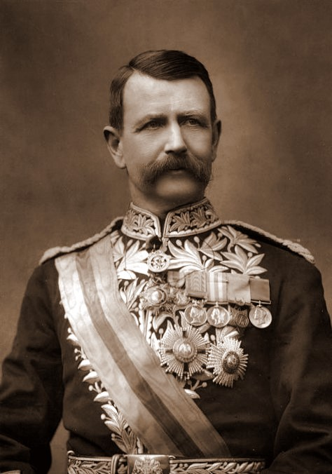 Charles Warren carbon print portrait by Herbert Rose Barraud of London